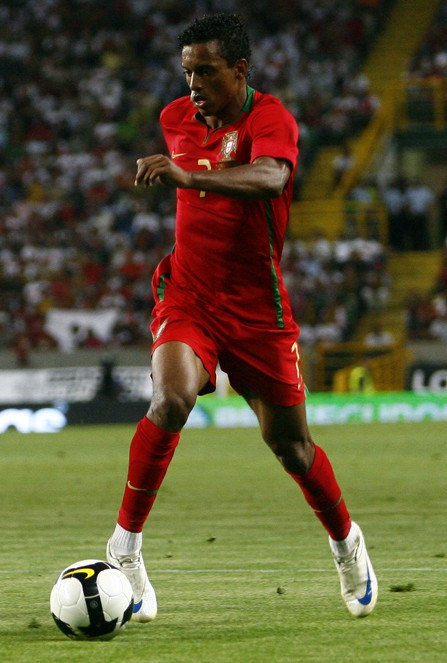 Nani playing for Portugal